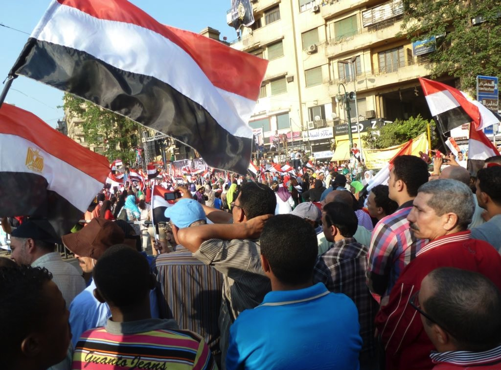 Thousands poured into Tahrir Square to celebrate what they are calling Egypt's "Second Revolution", the military's ouster of president Mohamed Morsi, July 7, 2013.